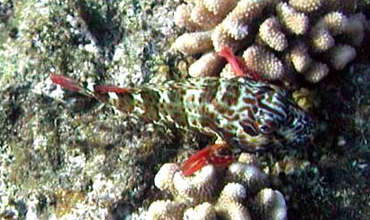 Stocky hawkfish (Cirrhitus pinnulatus).